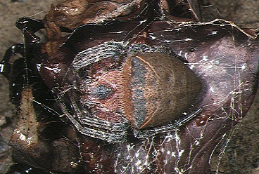 female Cyrtophora unicolor from Okinawa.